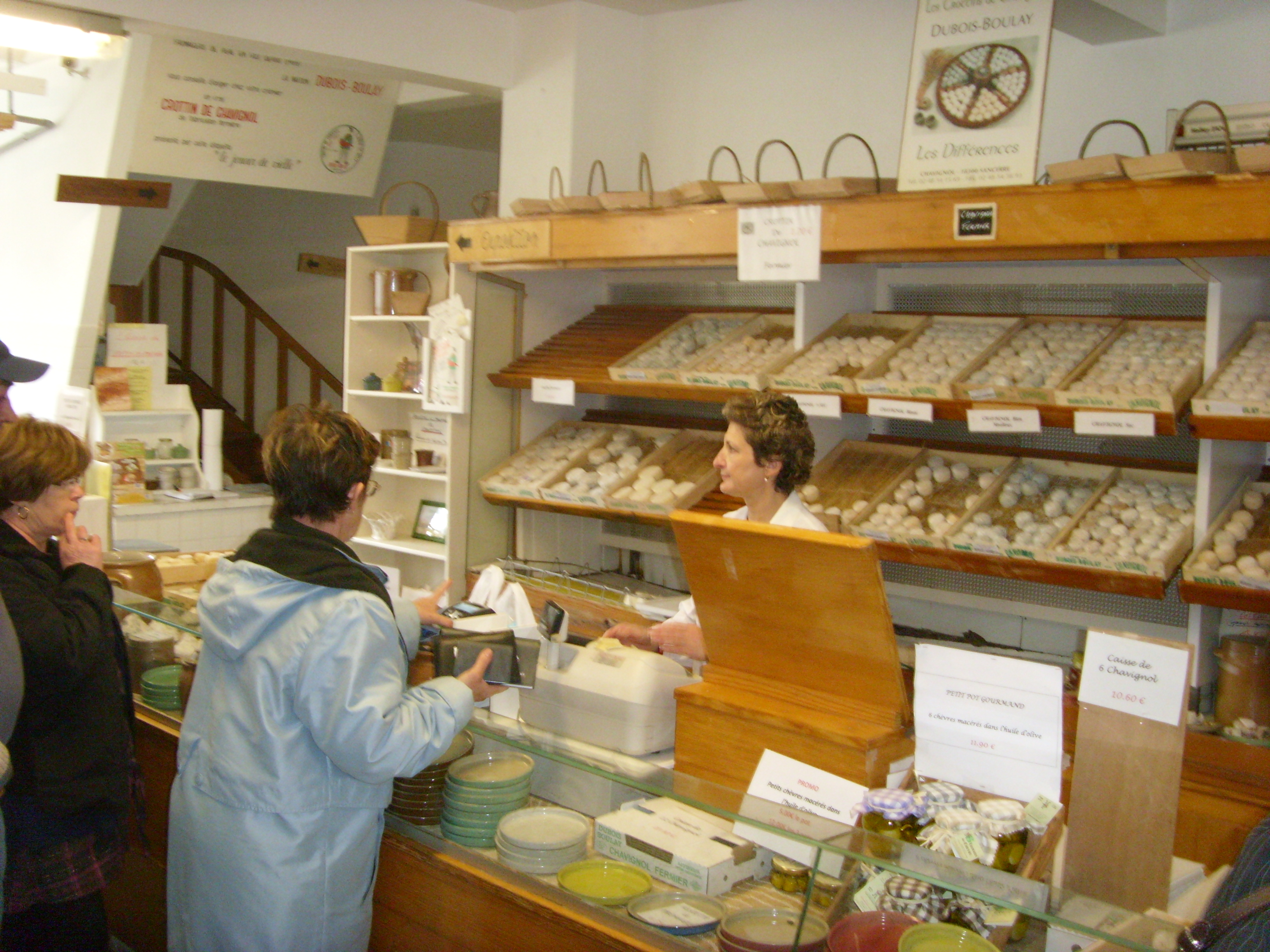 Cheese shop in Chavignol (Cher, France).